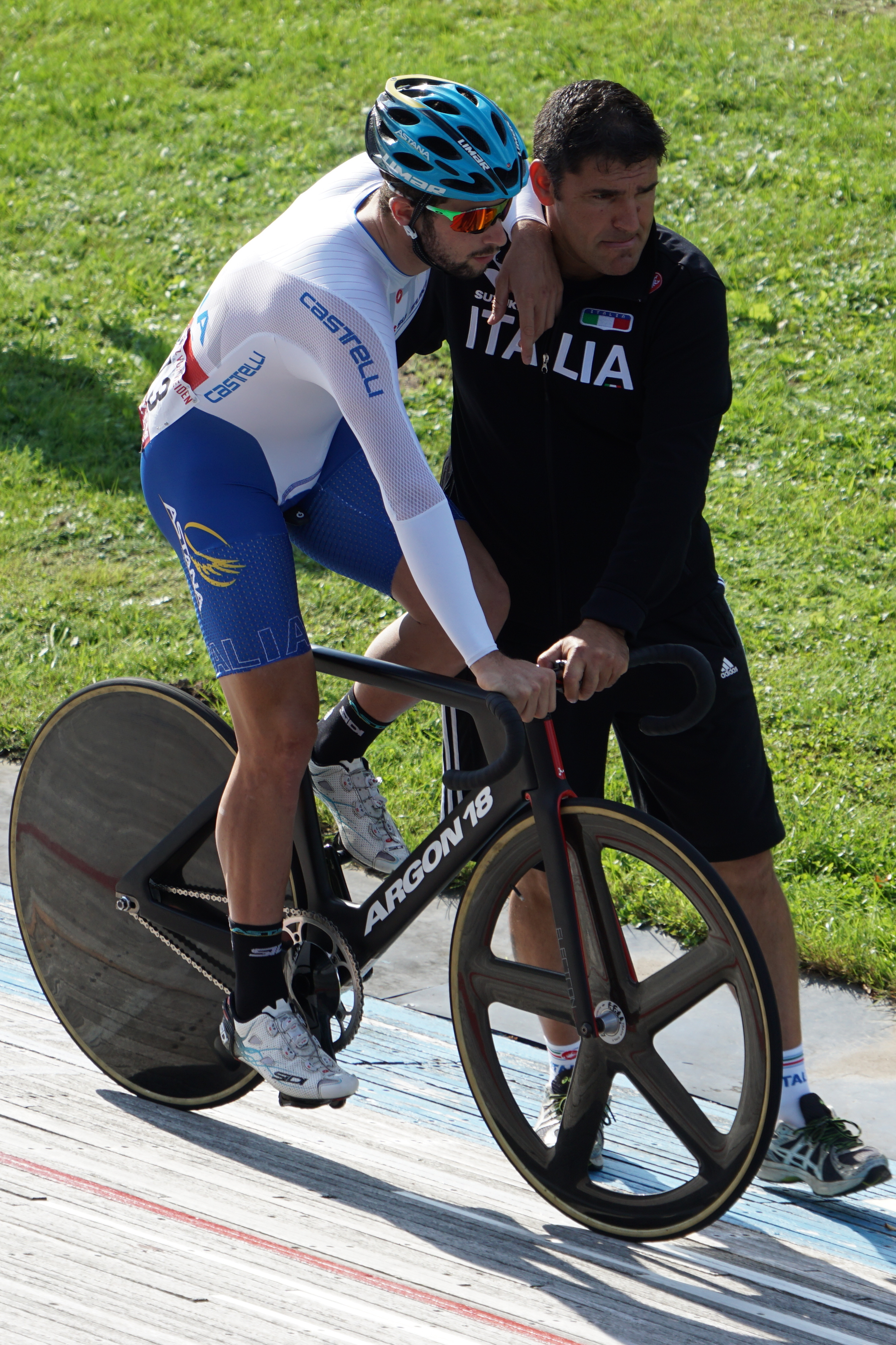 UEC Derny European Championships 2017 - Final, 120 laps / 40 km, Rider: Riccardo Minali (Italy)